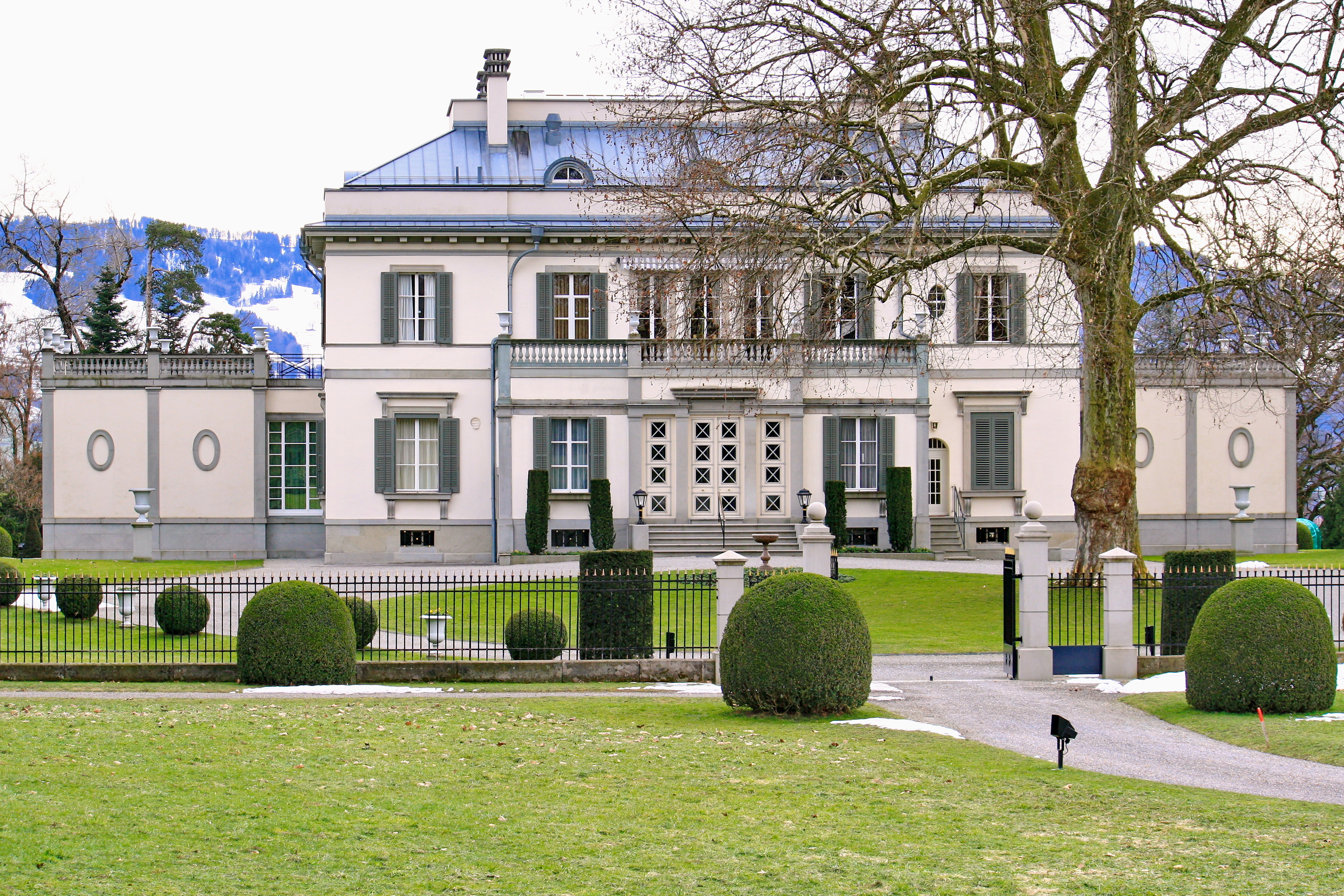 Meienberg nearby Rapperswil respectively Jona (Switzerland)